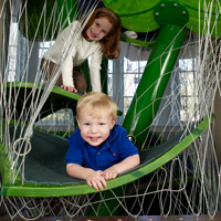 A picture I took of a child climbing the beanstalk at The Magic House, St. Louis Children's Museum